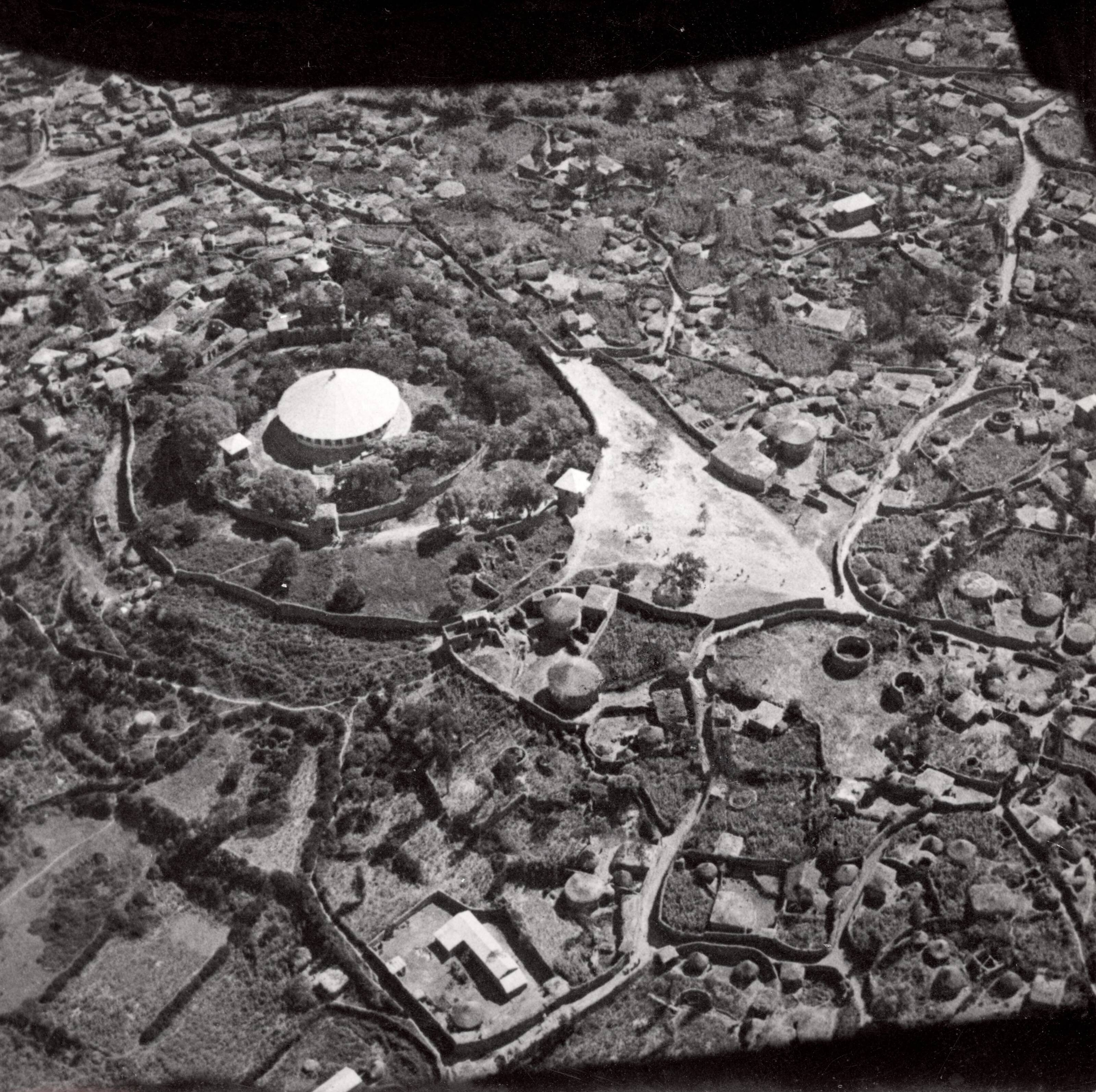 Axum 1934. Published in Dutch magazine "Het Leven"